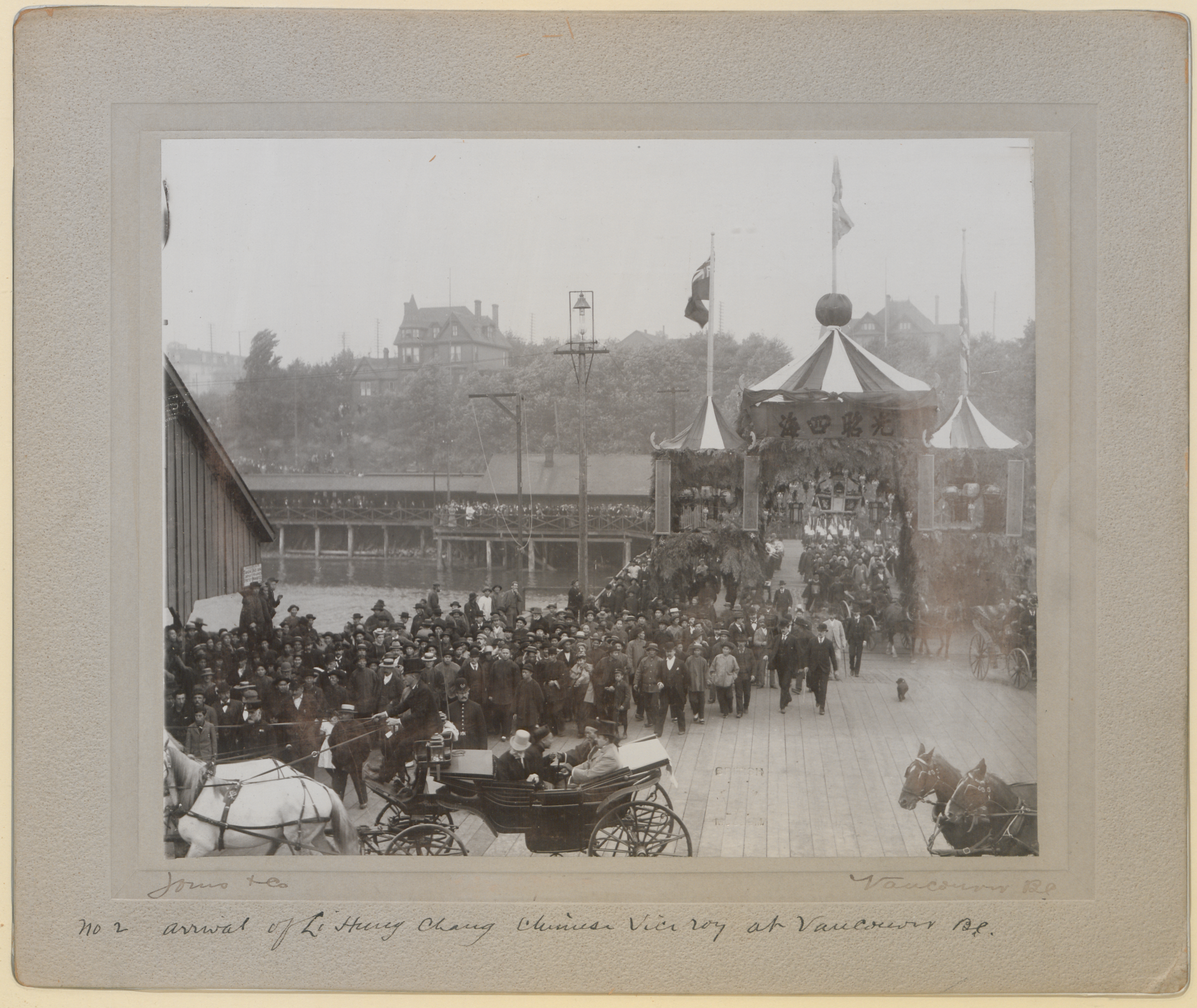 No. 2. Arrival of Li Hung Chang, Chinese Viceroy at Vancouver B.C. Showing Li Hung Chang and other officials leaving the quayside in an open carriage, with crowds of spectators behind.